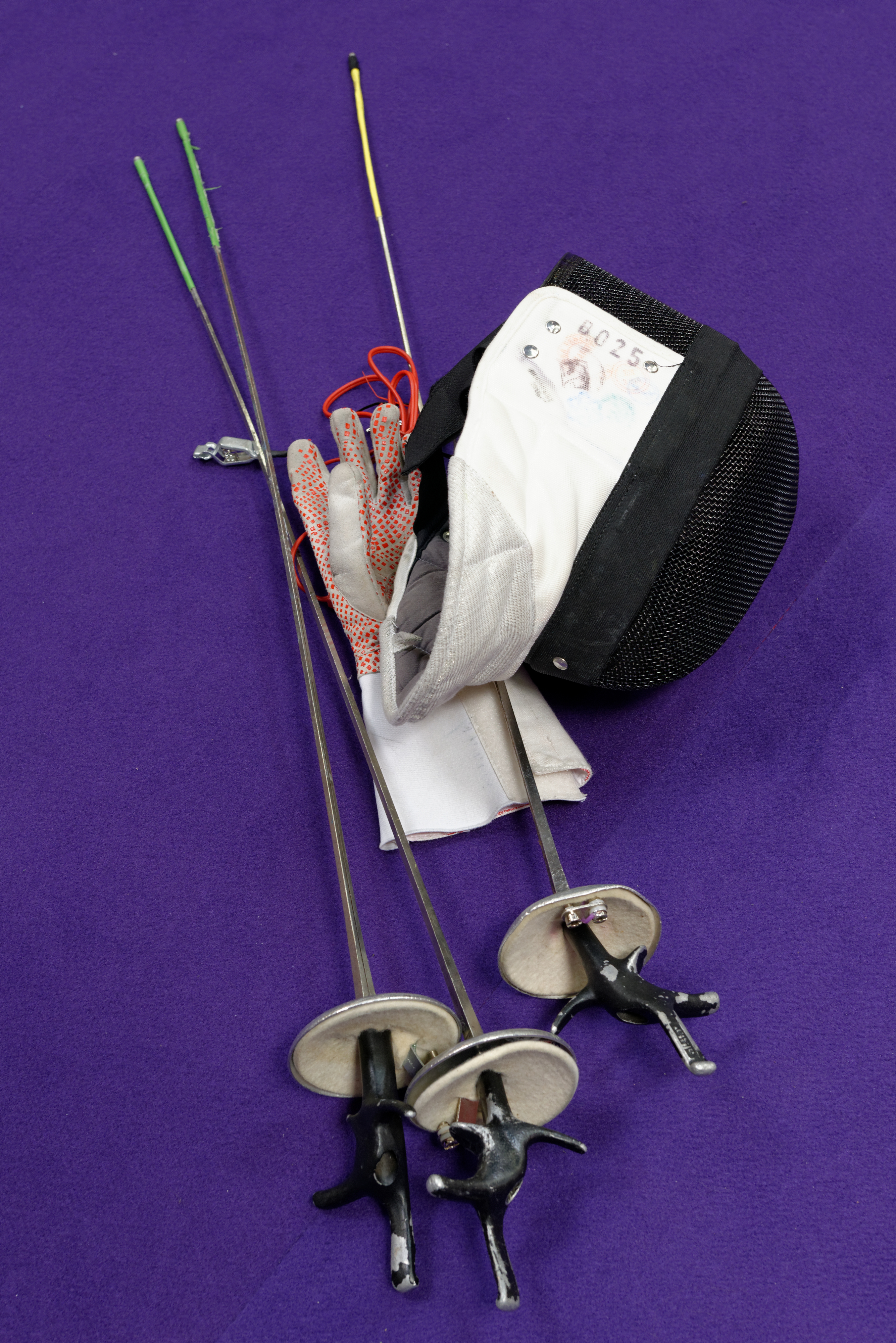 A foil fencer's equipment at the French Fencing Championship 2013: three pistol-grip foils, a foil glove, and a mask. Éric Tabarly Sports Complex in Antony, 2013.